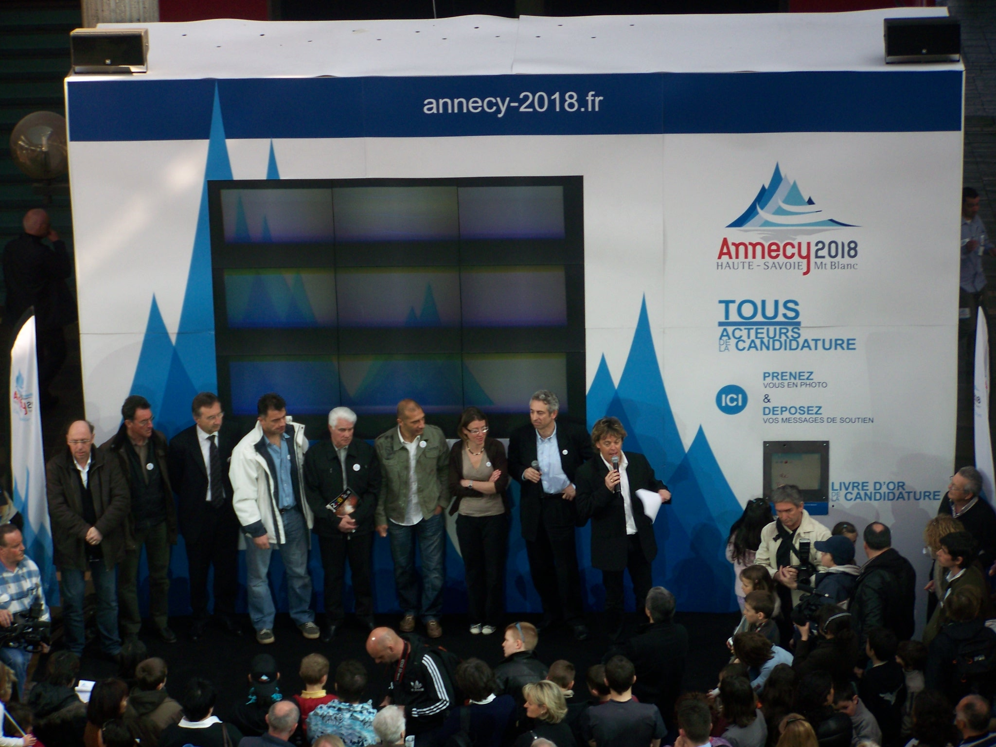 Awaiting at Annecy (Haute-Savoie, France) cultural center of Bonlieu of the International Olympic Commitee response about the city's candidacy to host the Winter Olympics of 2018.